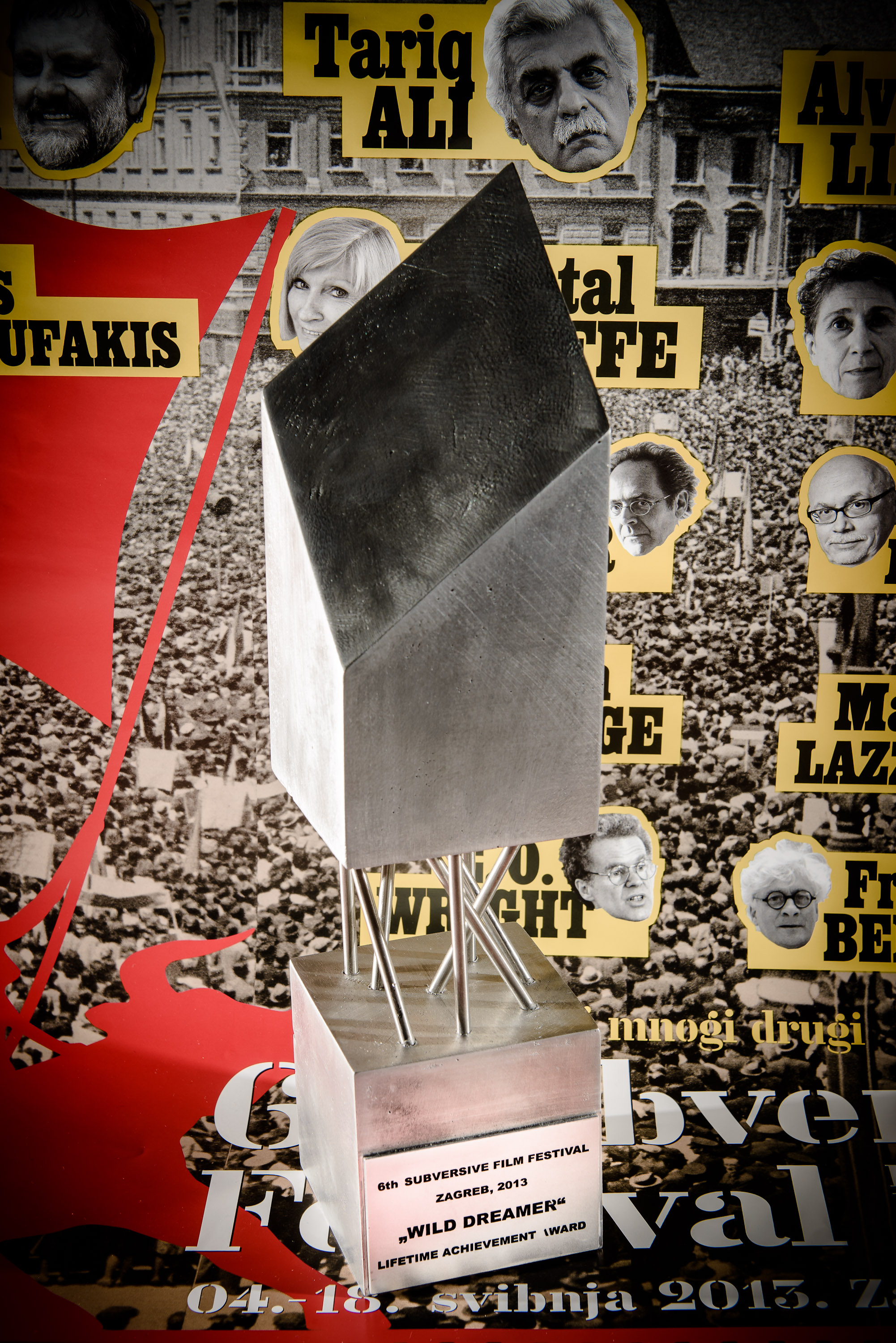 Wild Dreamer Award awarded at Subversive Festival